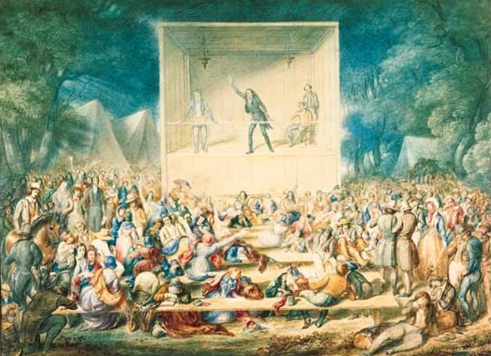 Methodist revival in USA 1839, watercolor from 1839 Second Great Awakening. The print was made in the USA in the 1840s.